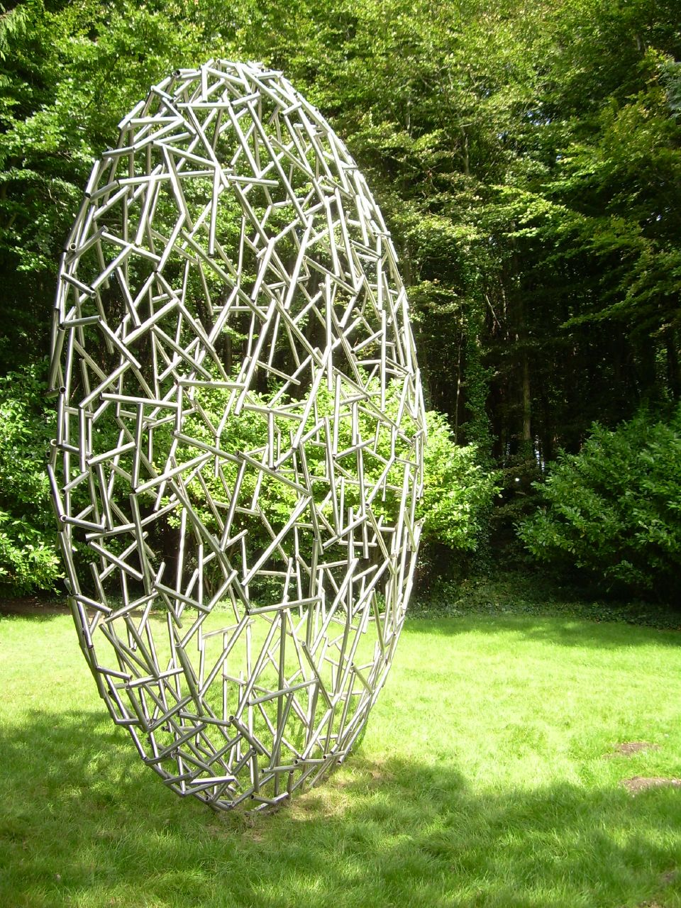 Sculpture System No. 19 by Julian Wild at Goodwood/UK